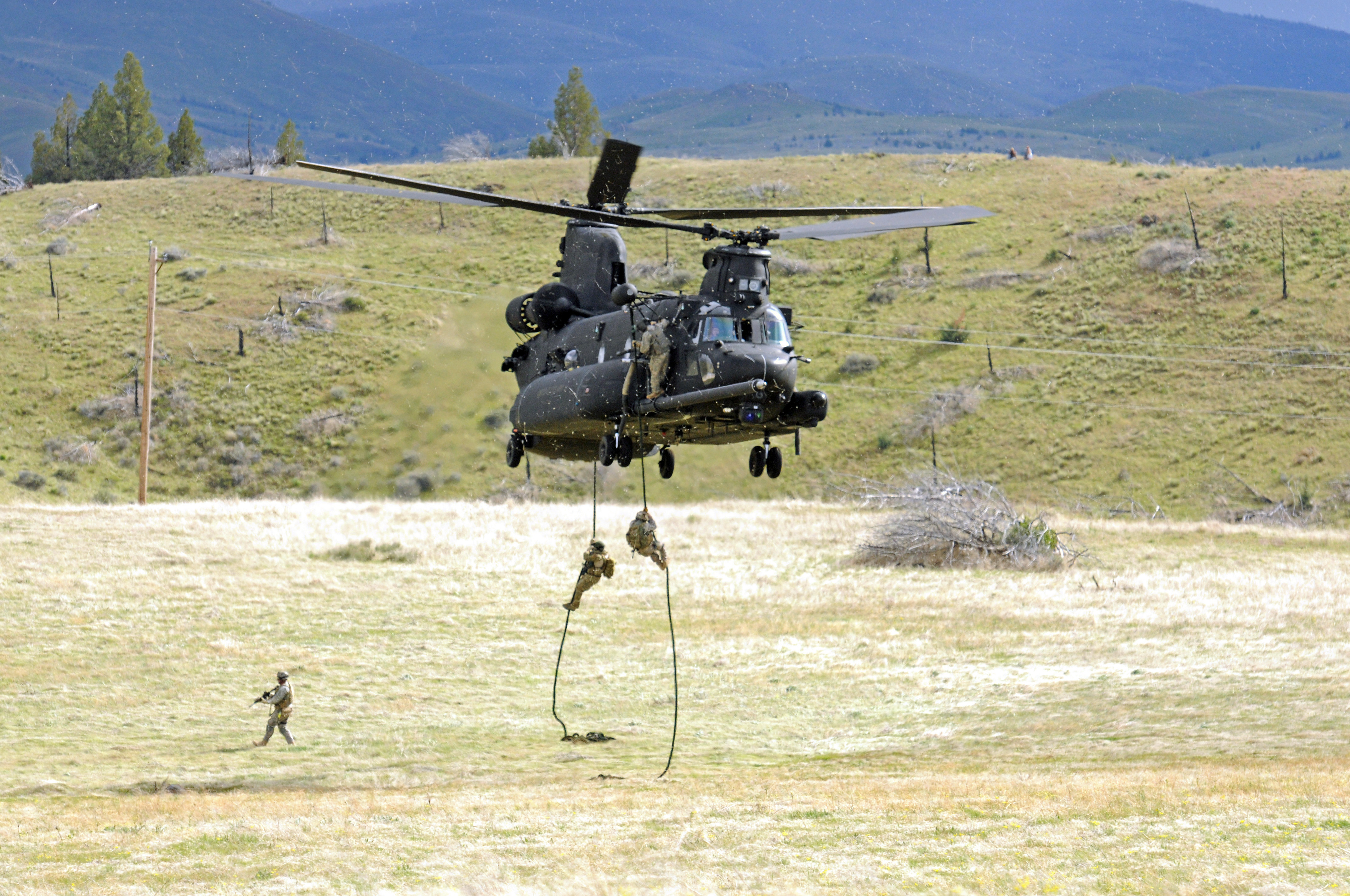 Airmen from the 125th Special Tactics Squadron, Oregon Air National Guard, and U.S. Army Special Forces soldiers "fast-rope."